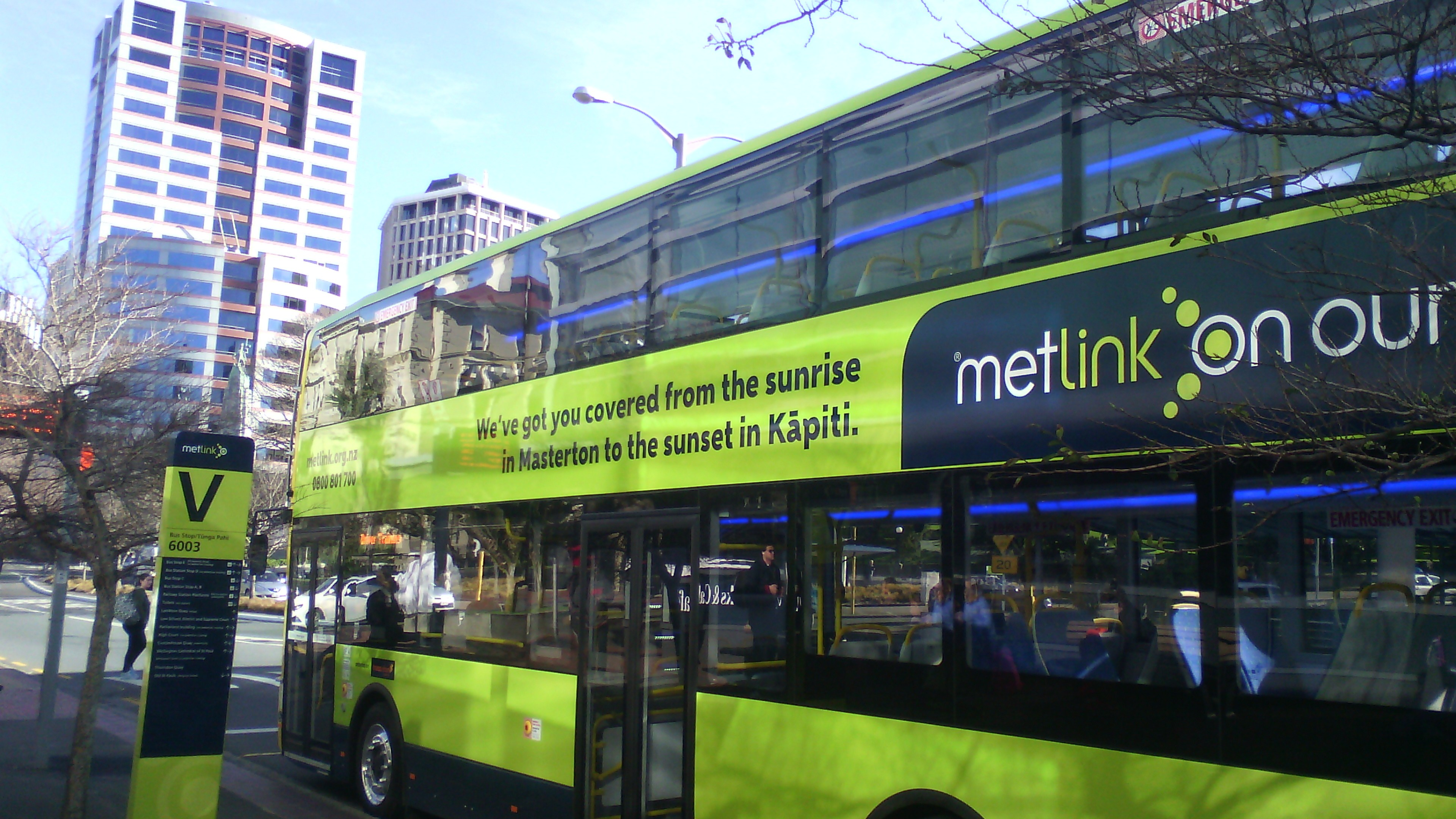 A Metlink Wellington double decker bus operated by Tranzurban parked at Lambton Quay interchange in Wellington, New Zealand.